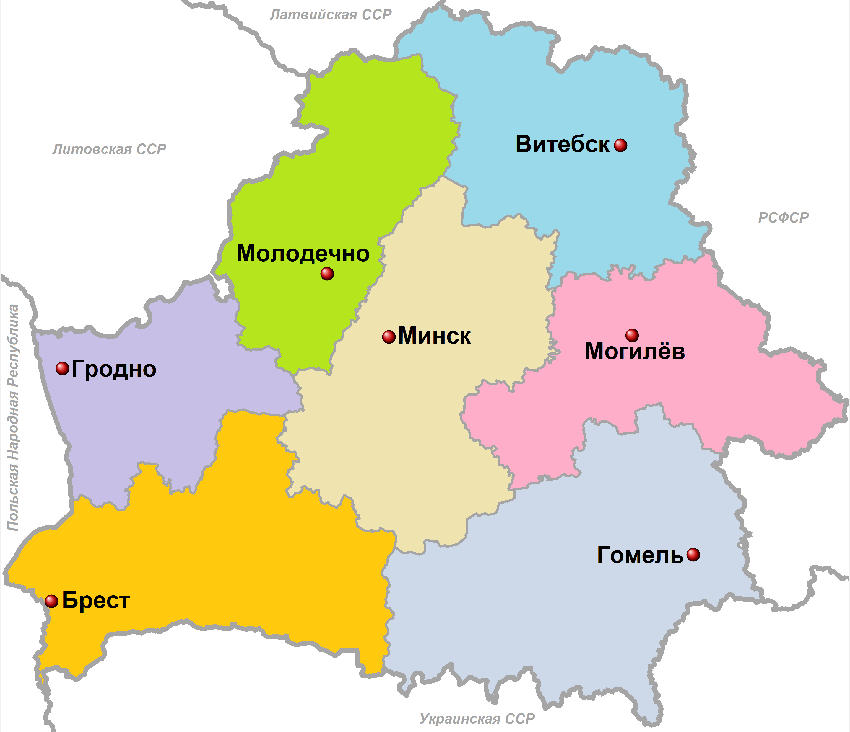 Byelorussian Soviet Socialist Republic oblast (region) divisions 1954-1960